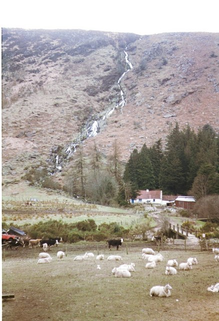 Waterfall, Glenmalur. The Carraywaystick Brook drops into Glenmalur (Gleann Molura)